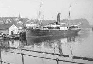 Norwegian passenger ship DS Christiania in Kragerø. This ship was built in 1895 and was later employed in the coastal express service (Hurtigruten) between 1944 and 1948.